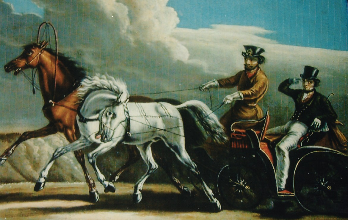 Thomas de Kay Winans (1820-1878). Russian troika